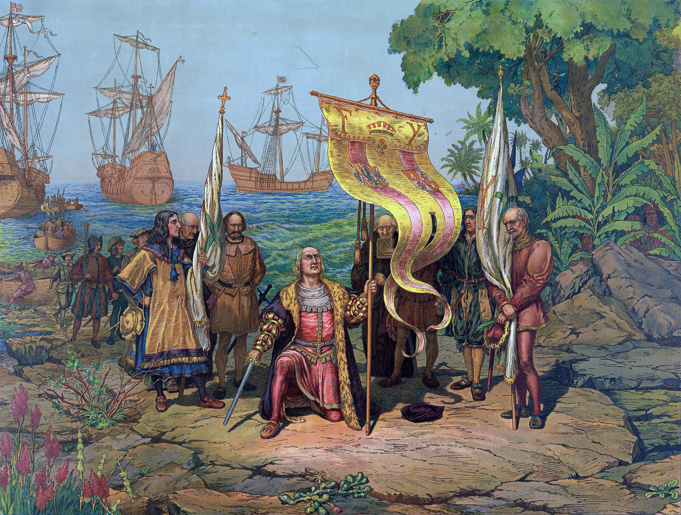 Christoper Columbus arrives in America